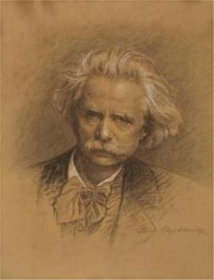 Portrait of Edvard Grieg, drawing by Leis Schjelderup